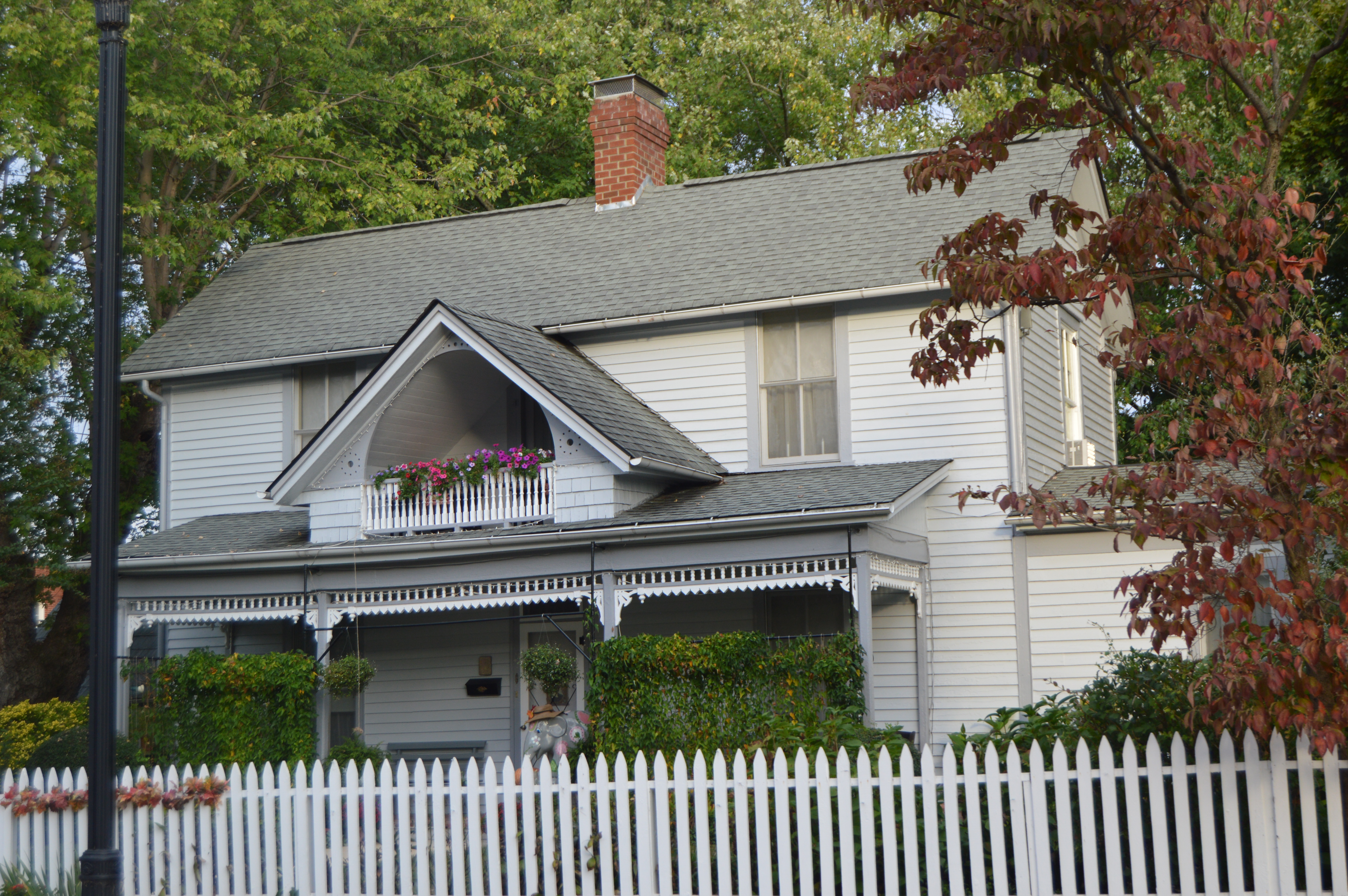 Front of the A.R. Brown House, located at 241 S. Main Avenue in Erwin, Tennessee, United States. Built in 1894, it is listed on the National Register of Historic Places.